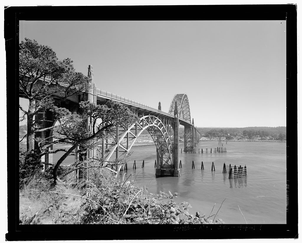 Black and white, large format documentary photograph of the Yaquina Bay Bridge in Newport, Oregon, photographed for HAER by James B Norman